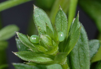 eggs of the Striped Hawk-moth